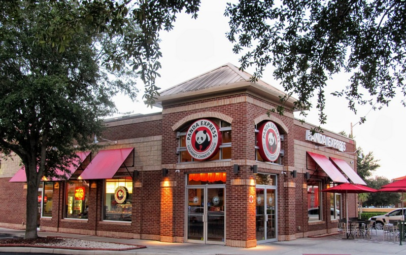 Panda Restaurant